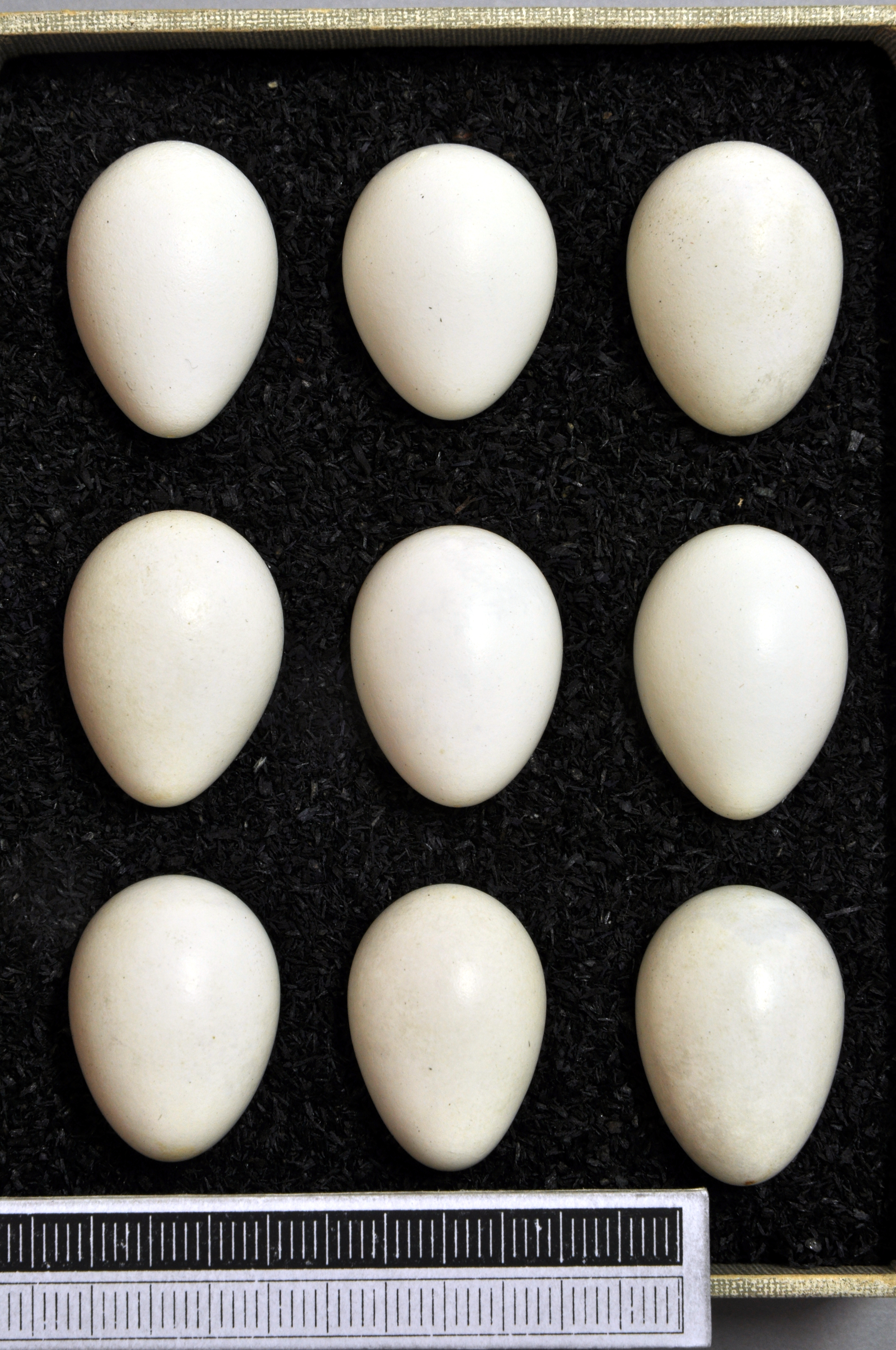 White-throated dipper Cinclus cinclus , egg, Coll. Museum Wiesbaden